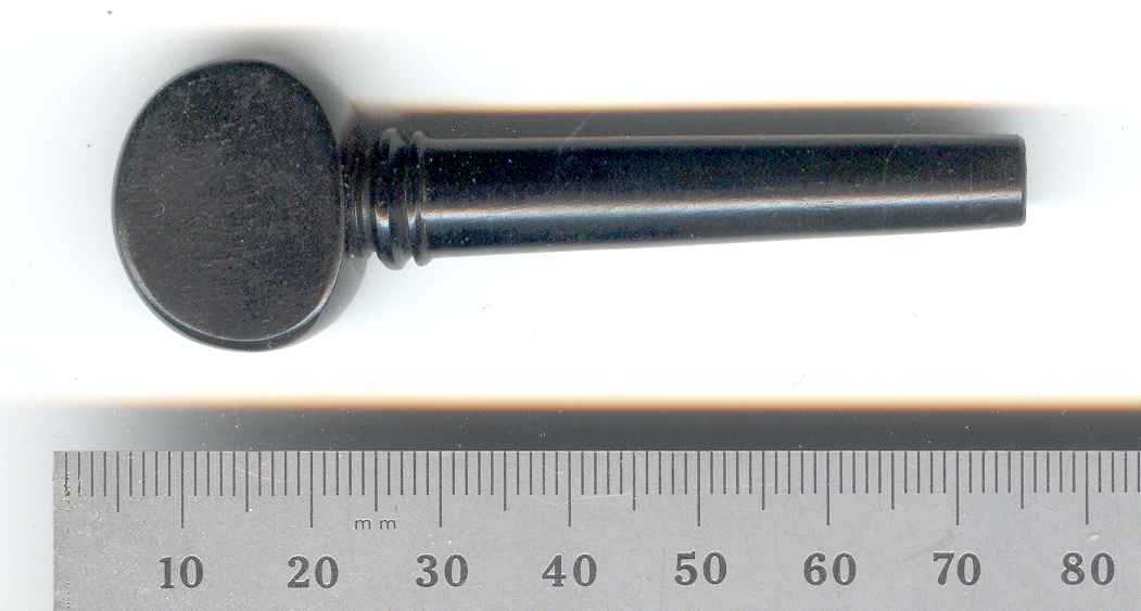 Violin tuning peg, ebony Not yet fitted to a pegbox, nor drilled nor trimmed.